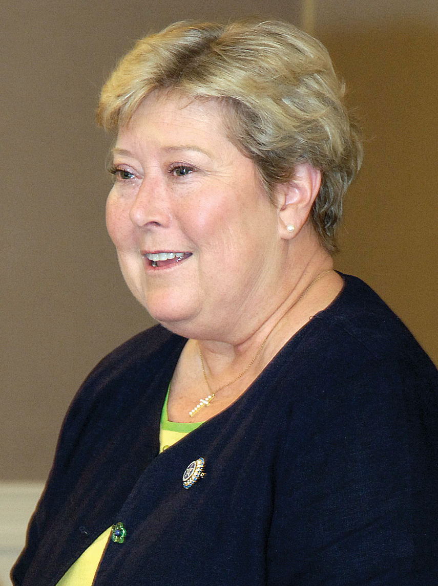 Oklahoma Lt. Governor Jari Askins (Democrat) speaks at Tinker Airforce Base.